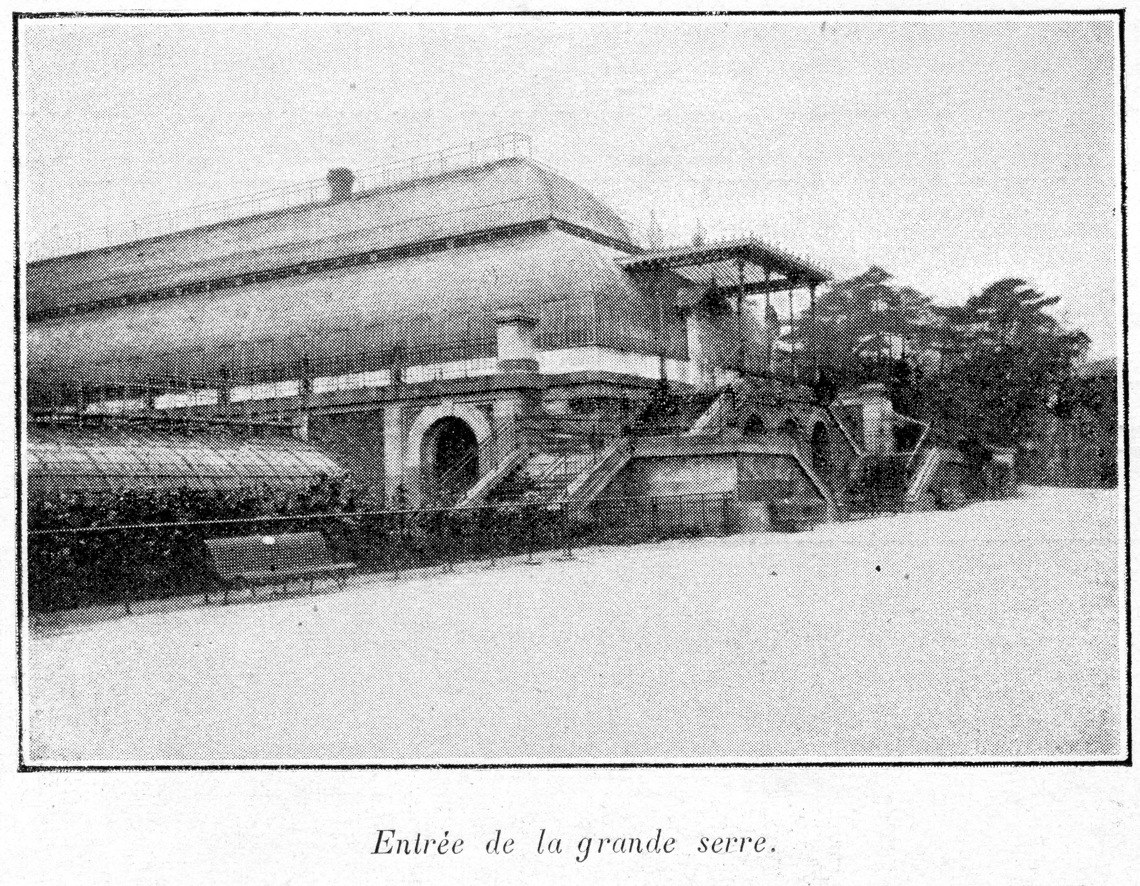 Clément Maurice, Paris en plein air, 1897, Entrée de la grande serre (literally: "great greenhouse entrance"). This greenhouse is no longer existing. Although other greenhouses, as of the 17th century, had been in use in the Jardin des plantes in Paris, that one was the first to be called jardin d'hiver ("winter garden"). Designed by architect Jules André, construction works for this large greenhouse began as of 1881. It was finally inaugurated in 1889. In 1934 it was demolished in order to be replaced, at the same site, by the new jardin d'hiver that is still in use nowadays. The new jardin d'hiver, inaugurated in 1937 according to plans of Félix Berger, has been renamed in 2010 as serre des forêts tropicales humides ("Tropical Rainforest Greenhouse").